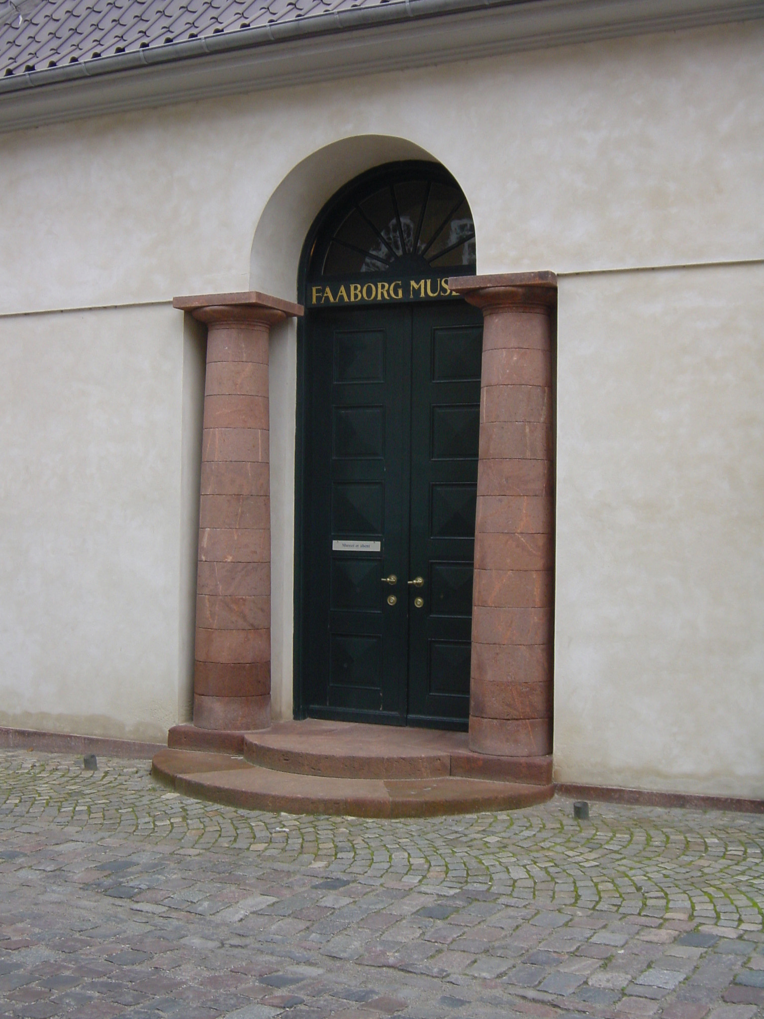 Entrance to the art museum of Faaborg, Denmark. Architect Carl Petersen 1915.